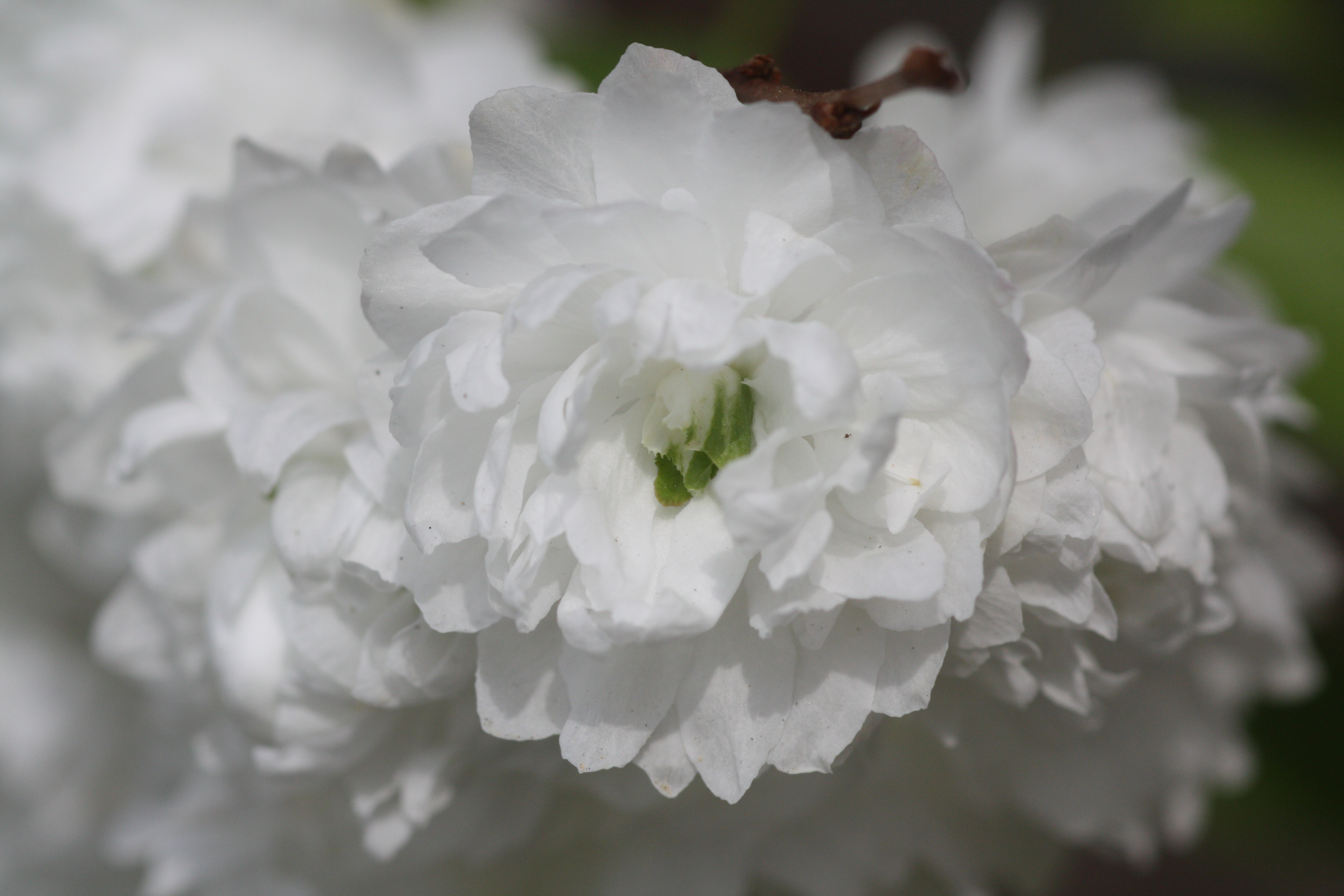 Prunus glandulosa for. albiplena